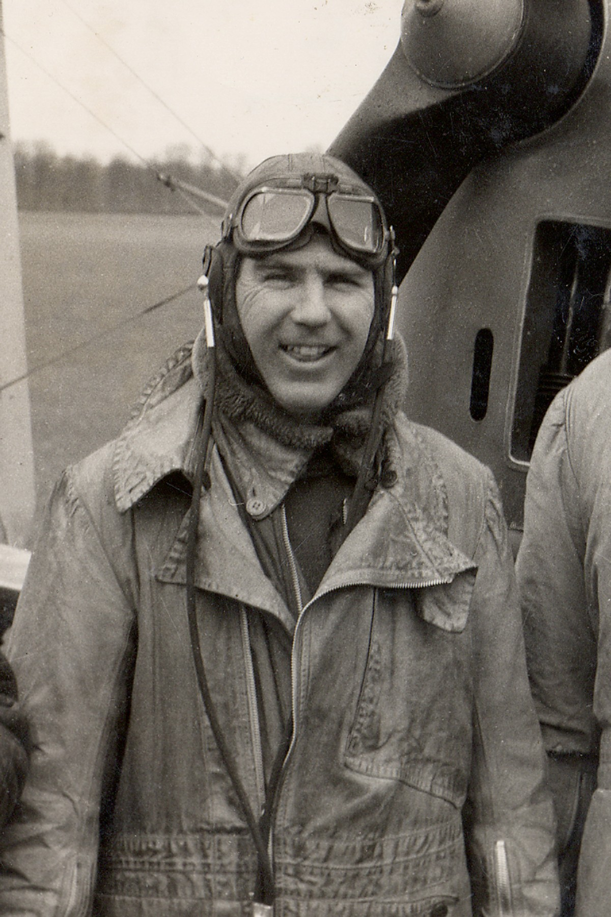 Darby Kennedy founded Weston Aerodrome, Leixlip, Co. Kildare, Ireland in 1931 (licensed circa 1937), where from 1946 he operated several de Havilland aircraft commercially from the Weston flying field, then from the 1950ies operated a flying school to train private pilots. Image shows him on the airfield in front of a Tiger Moth aircraft.